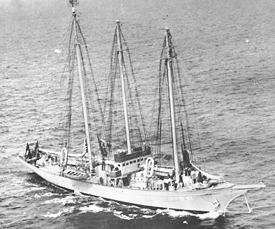 Guinevere (IX-67) underway, date and place unknown.